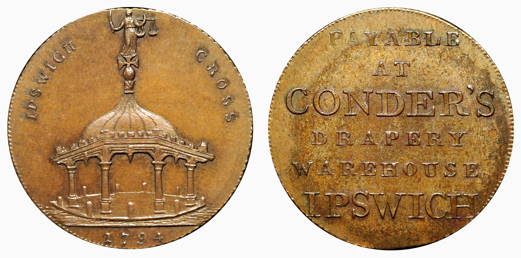 James Conder was the first to catalog the late 18th Century British Provincial coinage. Today, such unofficial tokens are called 'Conder Tokens.' Genuine small change was not being produced by the government, per King George III, and leave was granted for privately struck tokens to circulate. It was the height of the Industrial Revolution, and they had suddenly developed the steam engine and the steam coin press, had built the first iron bridge, and an iron ship, apparently a sailing barge. People were moving from barter to use of currency, and it was badly needed. This token advertised Mr. Conder's drapery shop, and he was an avid coin collector. This is a very gratifying find, found on ebay, and which arrived recently.